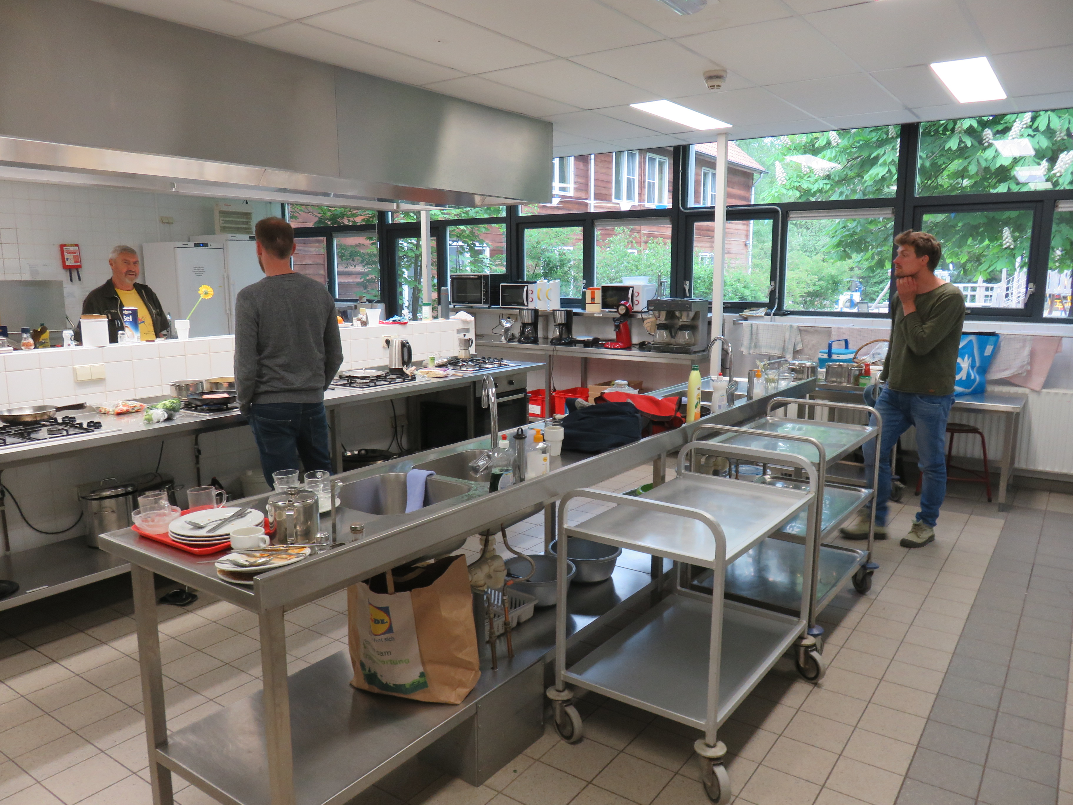 "Morgenrood", House from the international organisation Friends of Nature. View in the kitchen Аҧсшәа: Natuurvriendenhuis Morgenrood; Kijkje in de keuken